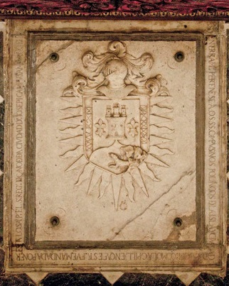 Campuzano Polanco Coat of Arms on Burial Slab